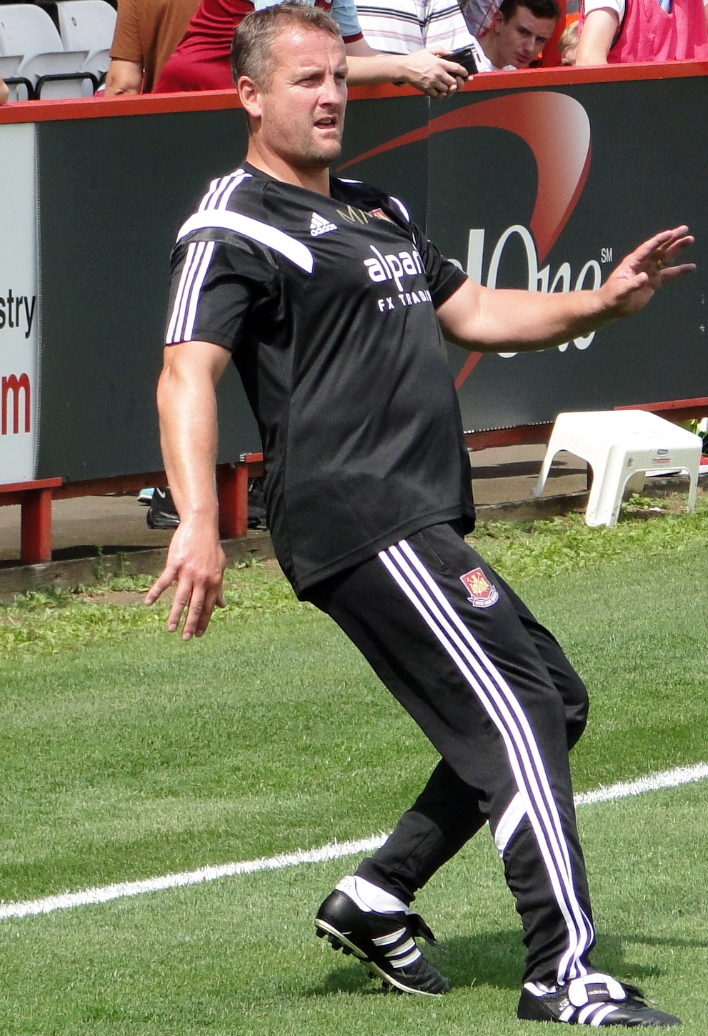 West Ham United goalkeeping coach, Martyn Margetson before their friendly game against Stevenage at Broadhall Way, July 2014.